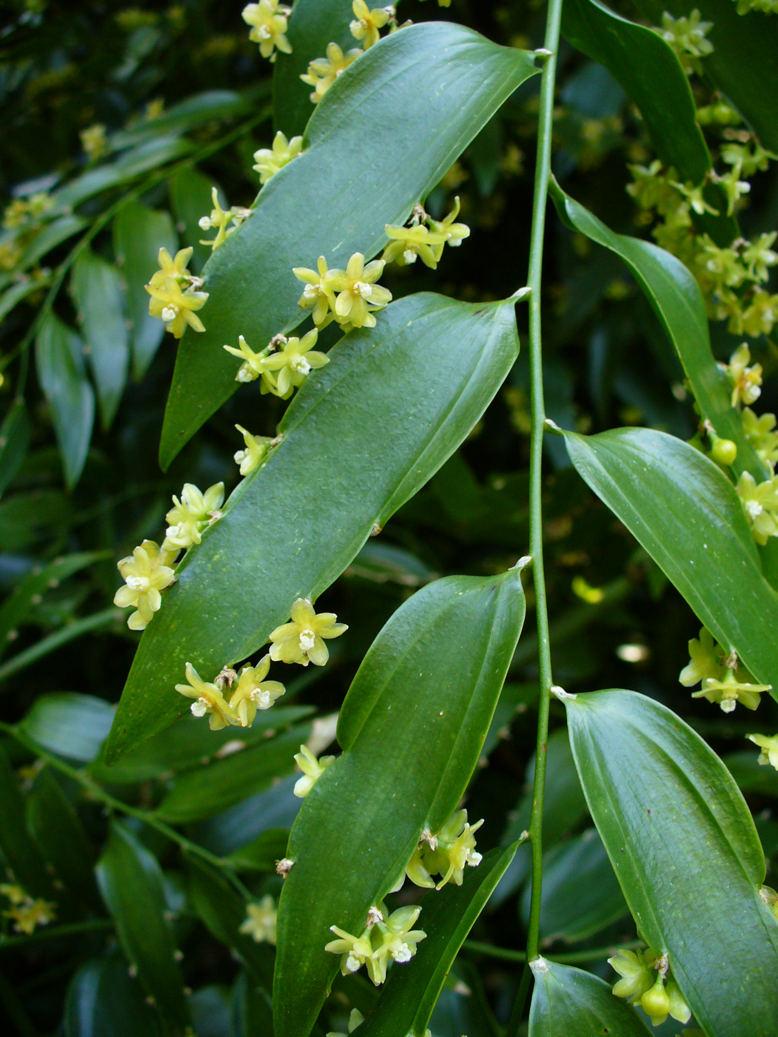 Tresco Abbey Garden, Scilly Is., UK. 20 June 2009. The "leaves" are actually flattened stems (cladodes) that have taken over the function of leaves.